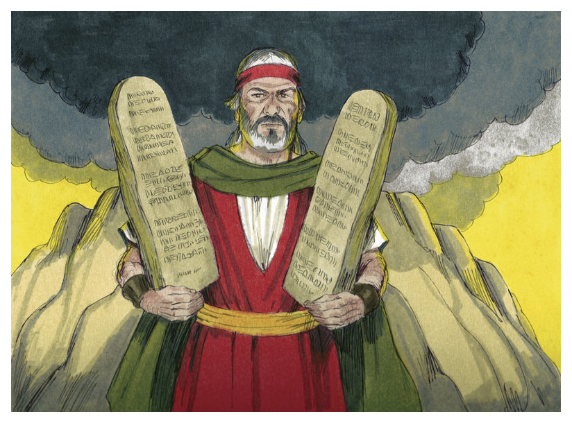 Biblical illustration of Book of Exodus Chapter 21